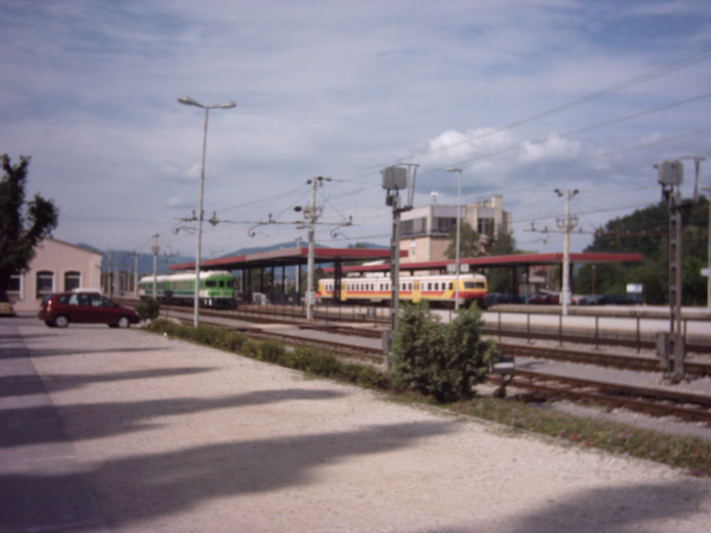 Railway station in Celje, Slovenia.